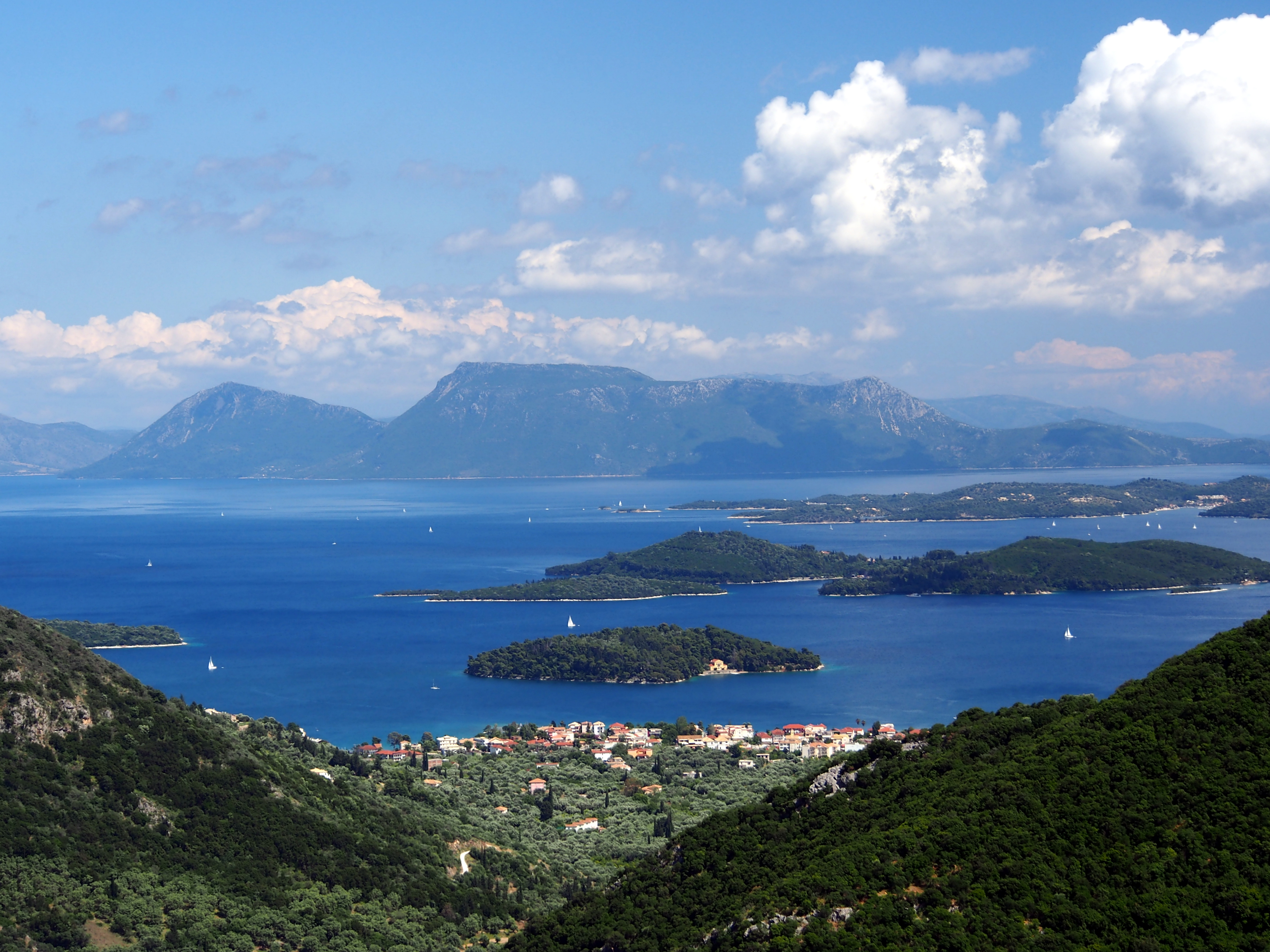 Photographed on Lefkada, Greece.